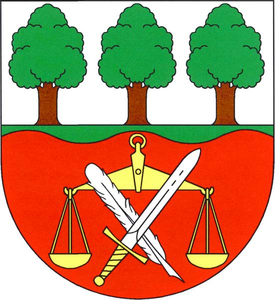 Coat of amrs of Černé Voděrady , District Prague east, Czech Republic